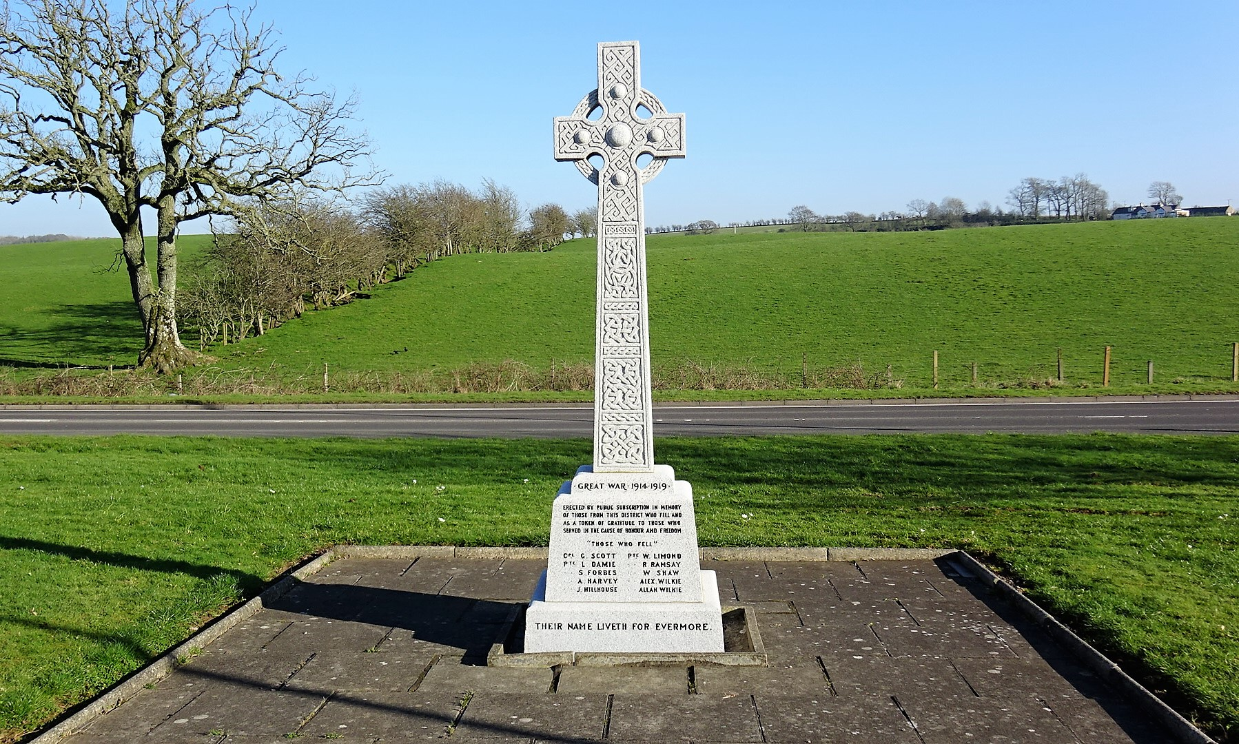 Minishant War Memorial in the Village, South Ayrshire, Scotland. It was moved here from the Lady Coates Memorial Church in the 1980s.